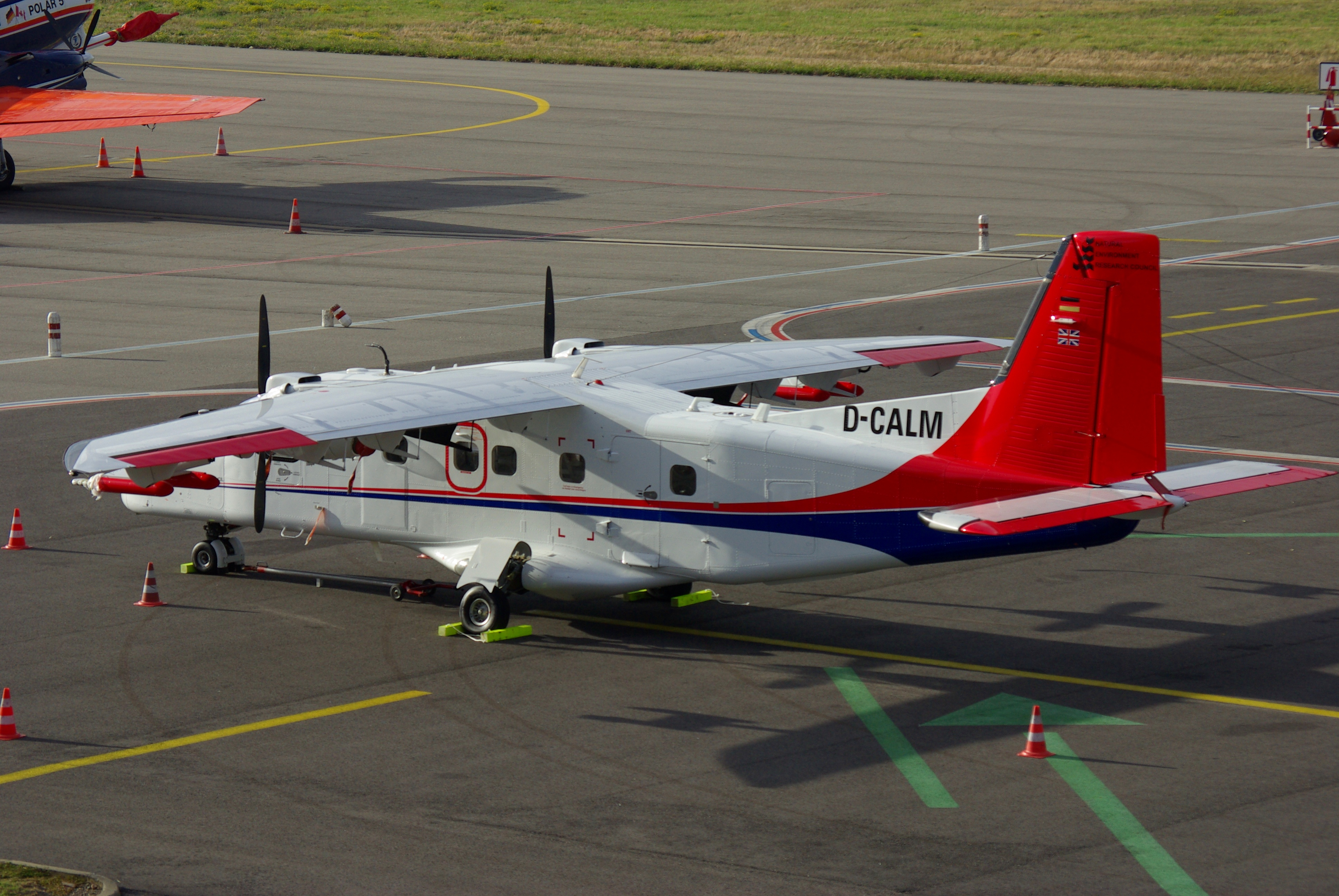 The Dornier Do 228 of the Natural Environment Research Council, registered D-CALM, at the International Conference on Airborne Research for the Environment (ICARE 2010) in Toulouse.